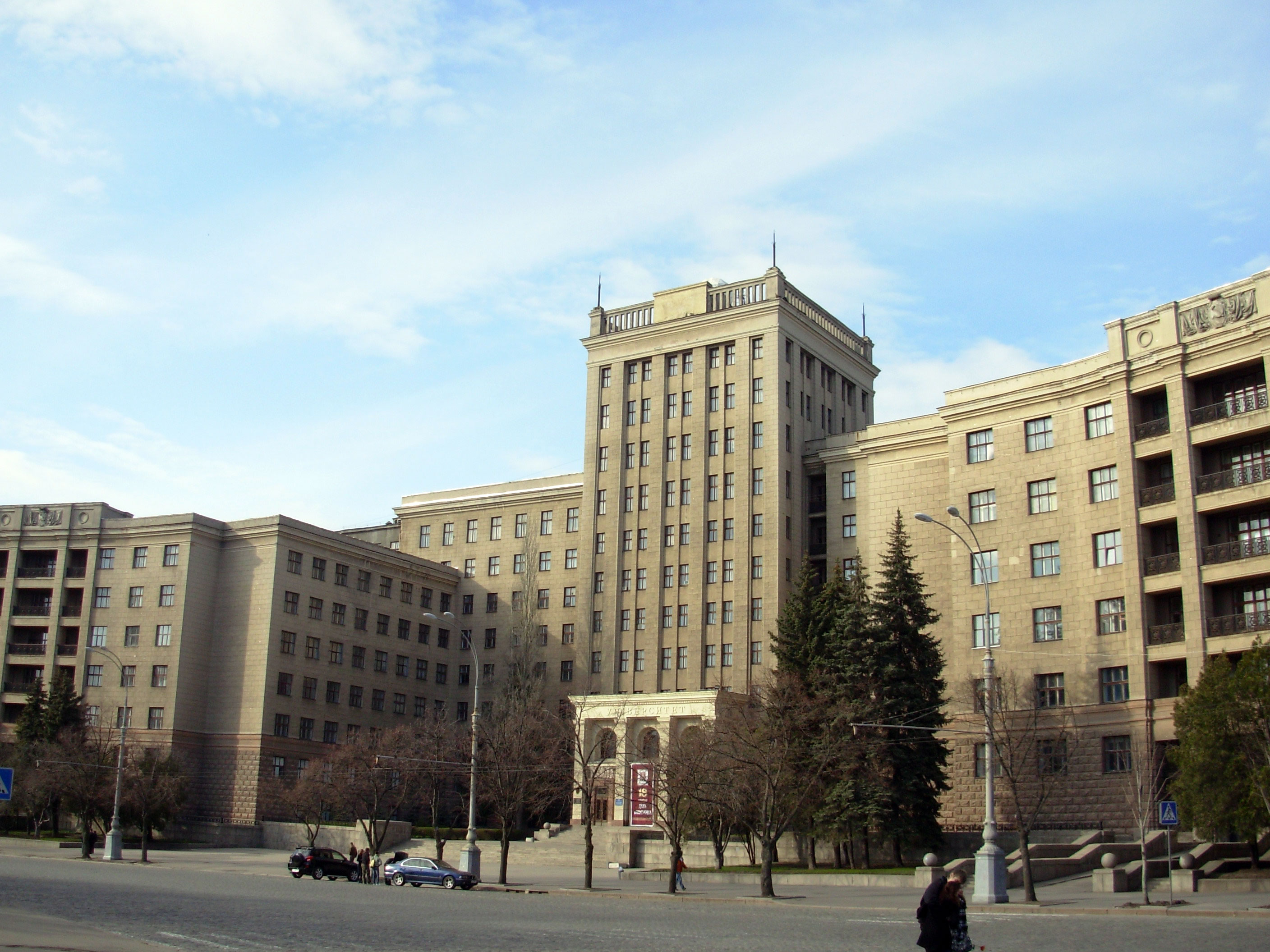 Building of Kharkiv University at the northern side of Freedom Square